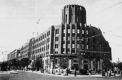 TMPD building in Pre-war Showa era